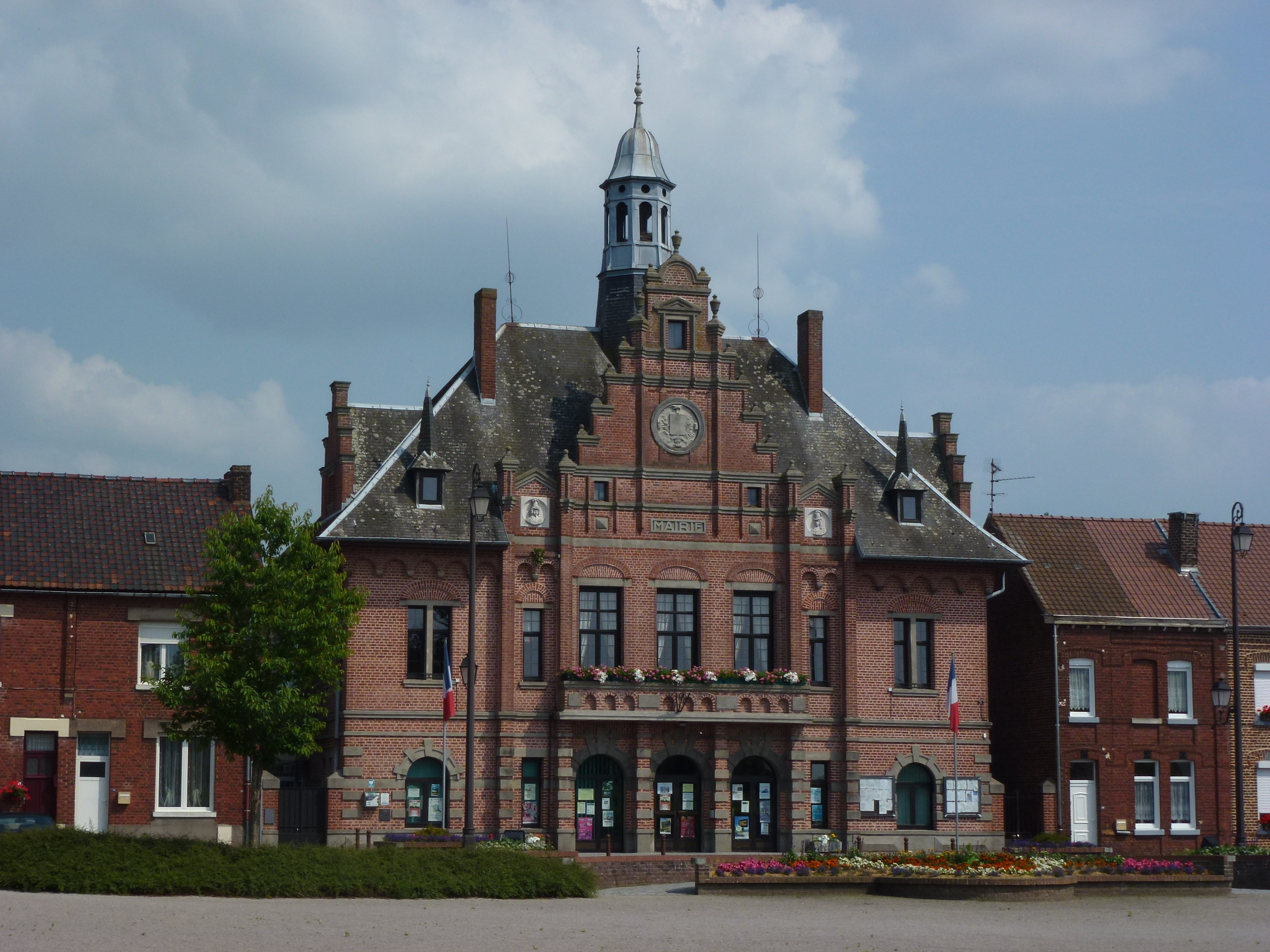 Mortagne-du-Nord (Nord, Fr) la mairie